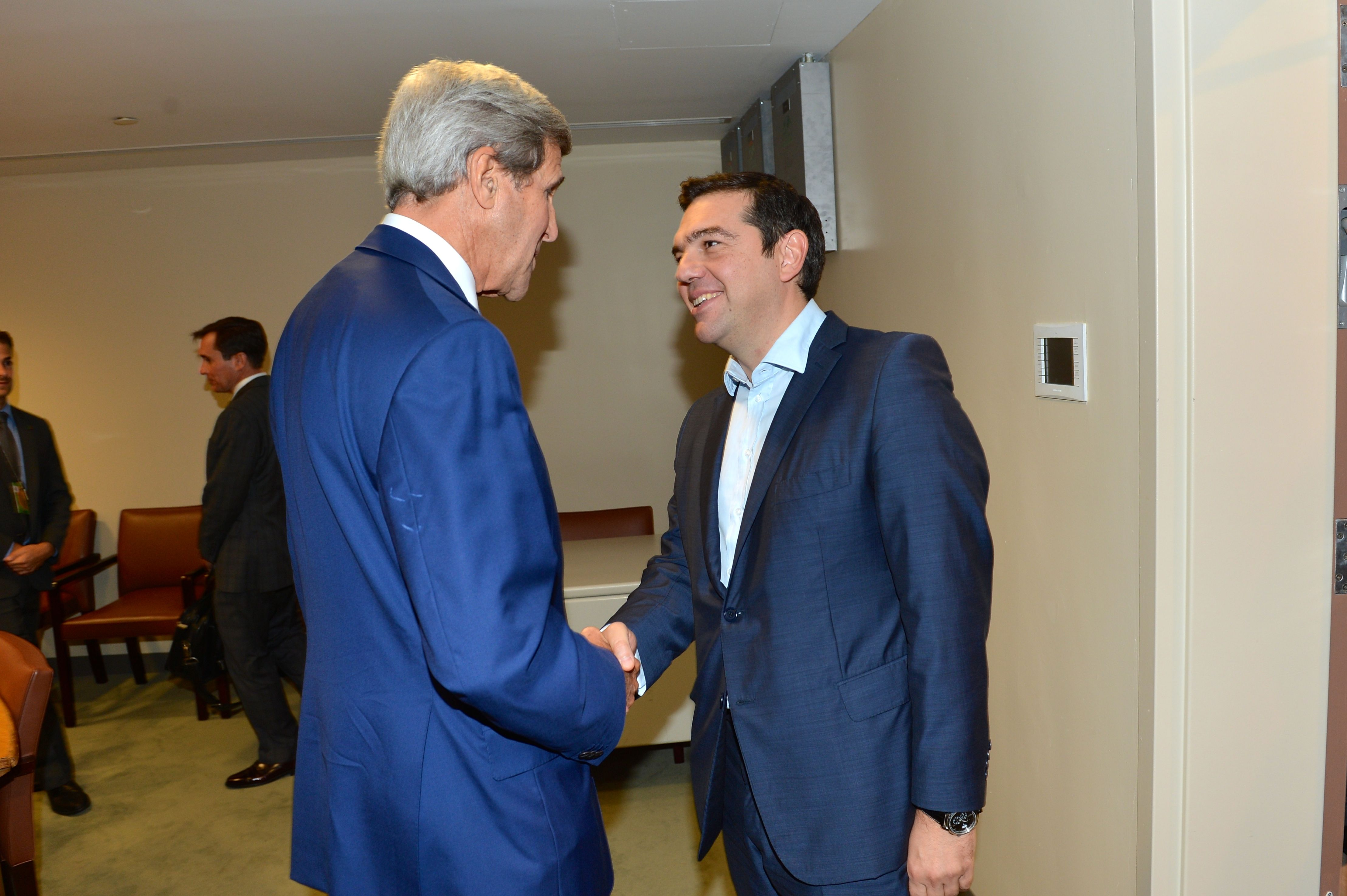 U.S. Secretary of State John Kerry greets Greek Prime Minister Alexis Tsipras before their meeting at the United Nations in New York City on September 30, 2015. [State Department photo/ Public Domain]